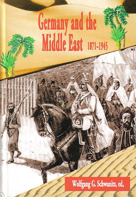 Kaiser Wilhelm II visiting Jerusalem in 1898; part of the composed bookcover "Germany and the Middle East" by Maria Madonna Davidoff for Markus Wiener Publishers, Princeton NJ, in 2004.